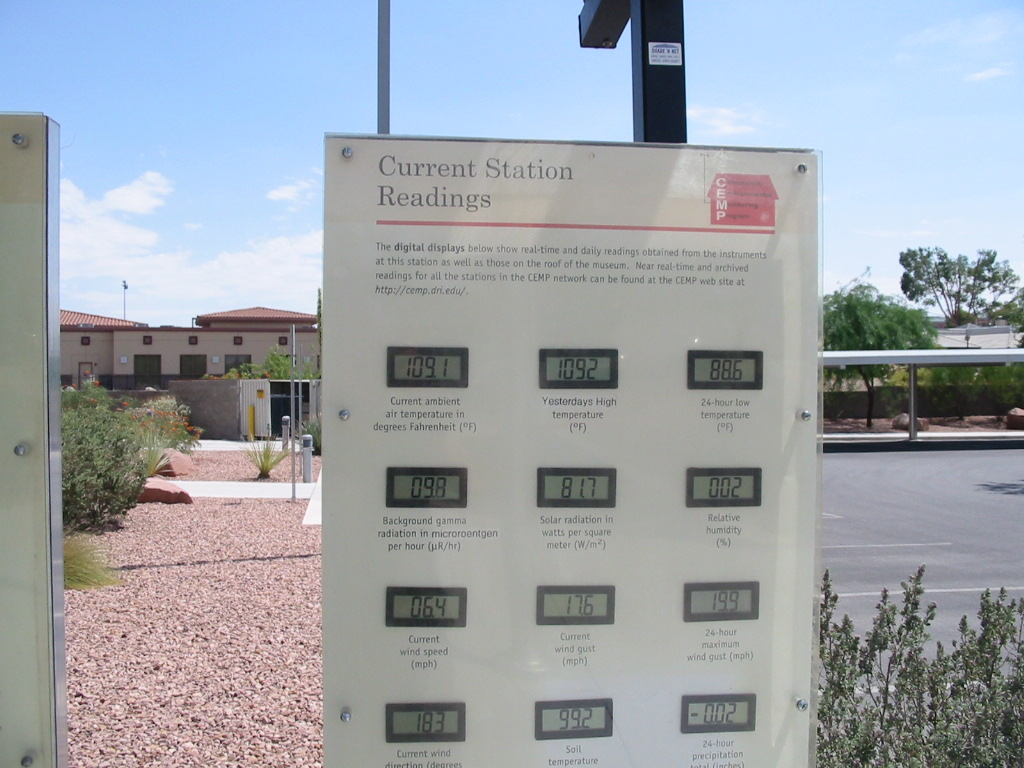 Photograph of the weather station outside of the Atomic Testing Museum in Las Vegas, Nevada. Readouts include temperature, windspeed and radioactivity level.